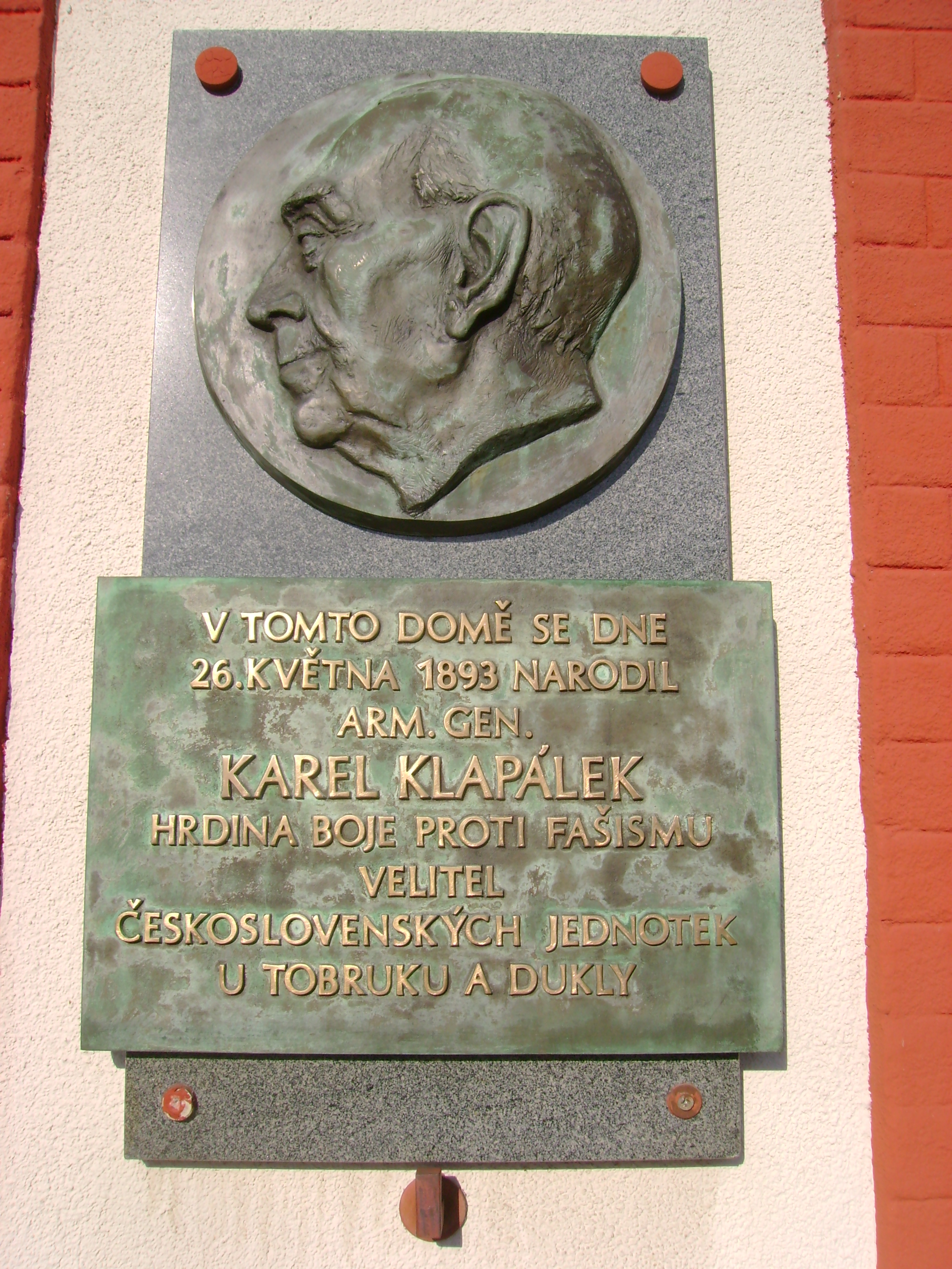 Memorial plaque in Nové Město nad Metují, Náchod District, the Czech Republic.Karel Klapálek (1893–1984), general of the Czechoslovak Army, was born here on May 26, 1893.